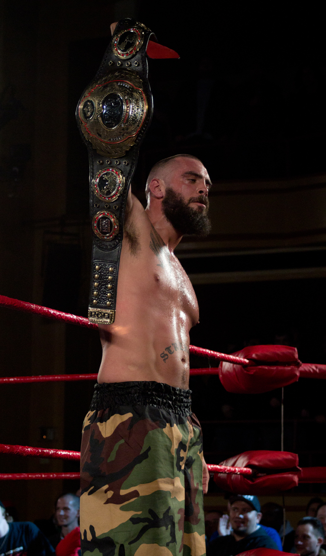 RoH Supercard of Honor VII